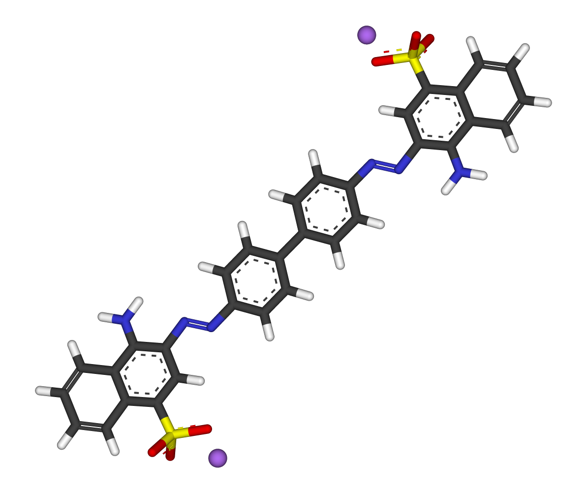 Congo red